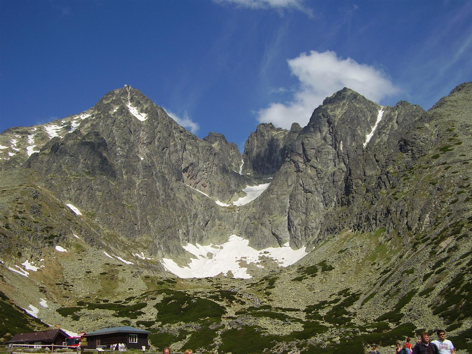 View at Lomnický štít (on the right side) from Skalnaté pleso